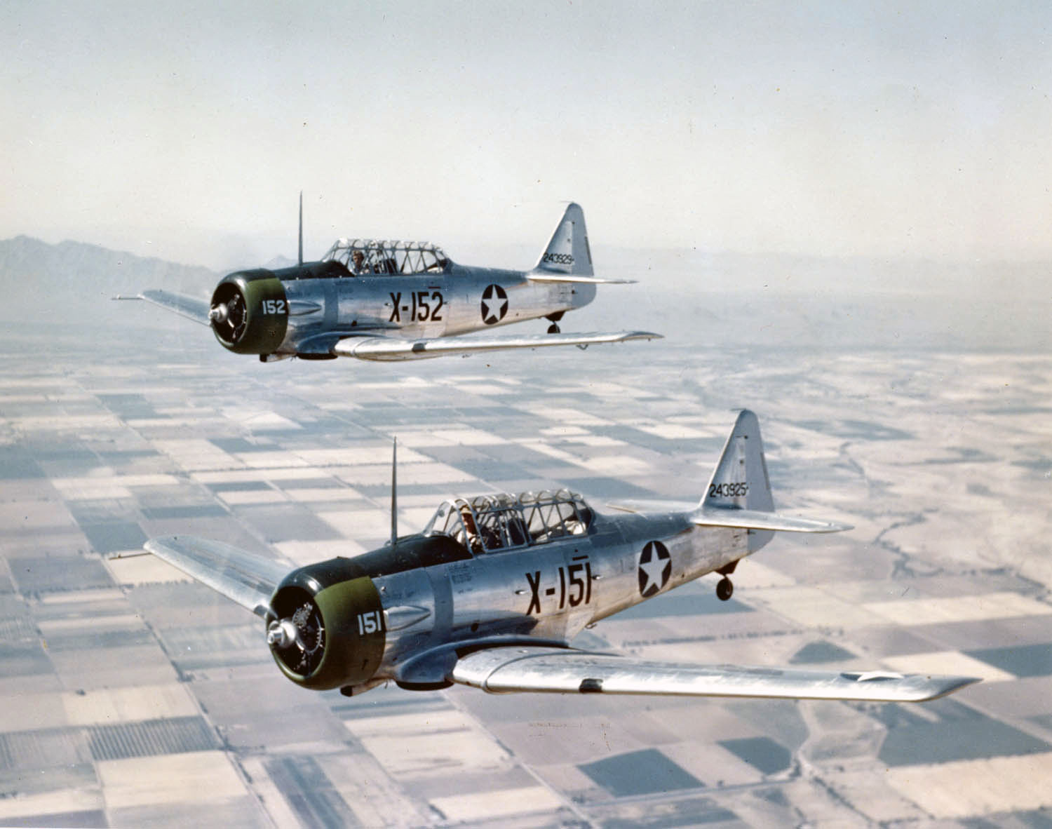 Two U.S. Army Air Forces North American AT-6C-NT Texan trainers (s/n 42-43925, 42-43929) in flight near Luke Field, Arizona (USA), in 1943.